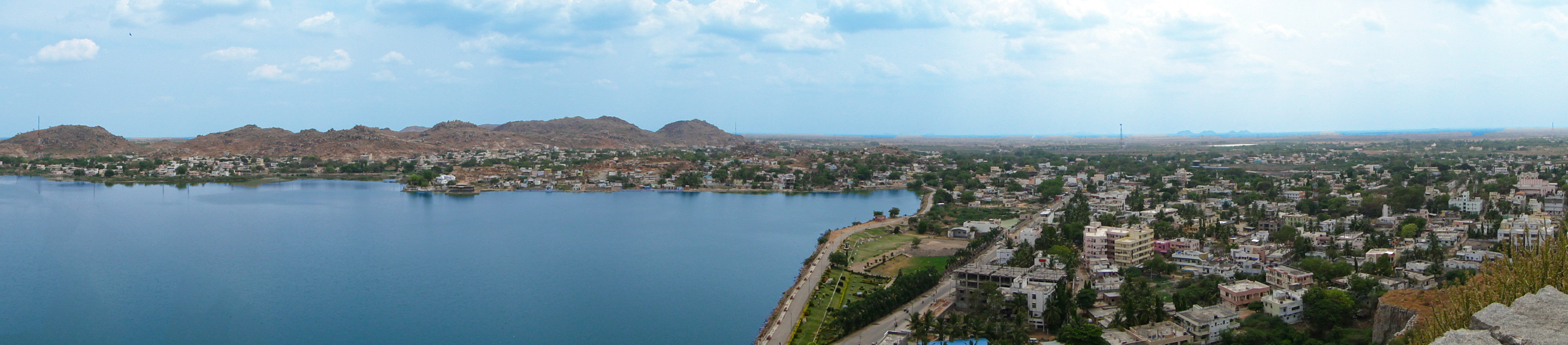 Wide panorama of aam talab in raichur city